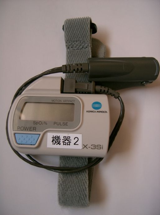 Pulse oximetry (KONICAMINOLTA PULSOX-3Si)